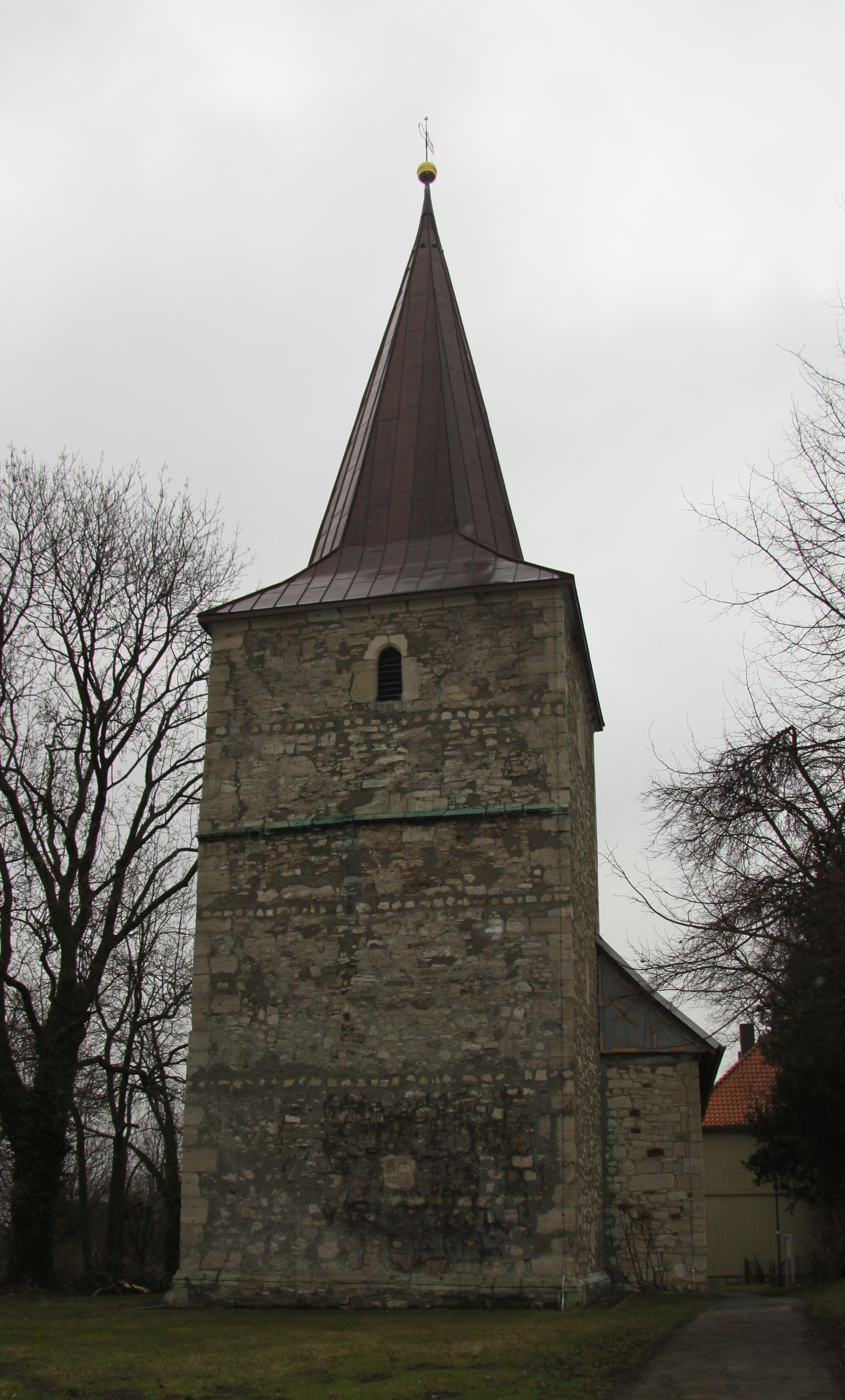 Church in Berklingen, Lower Saxon, Germany. Limestone